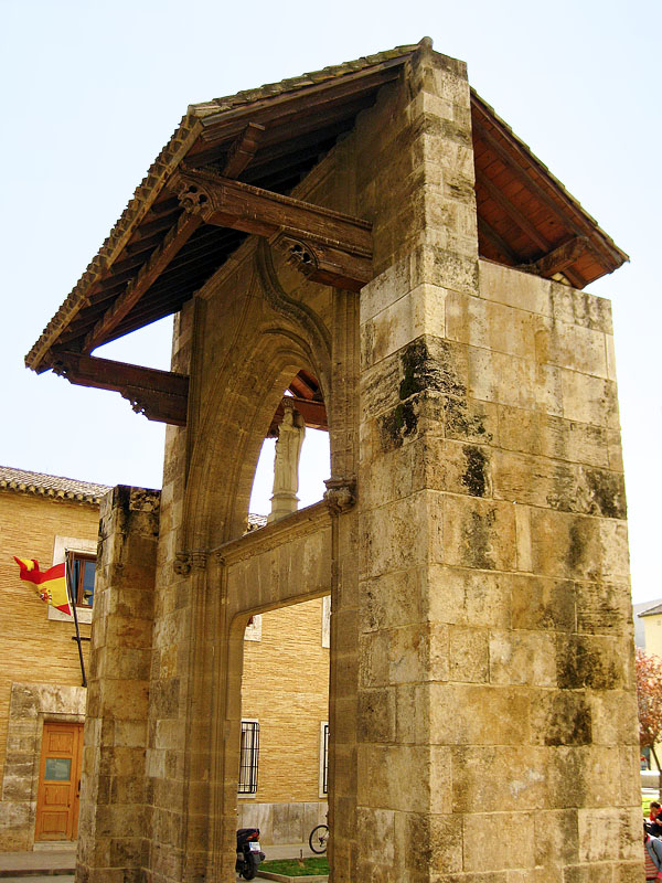 Medieval portal to the Valencian Public Library. Portal medieval del parc de l'Hospital, València